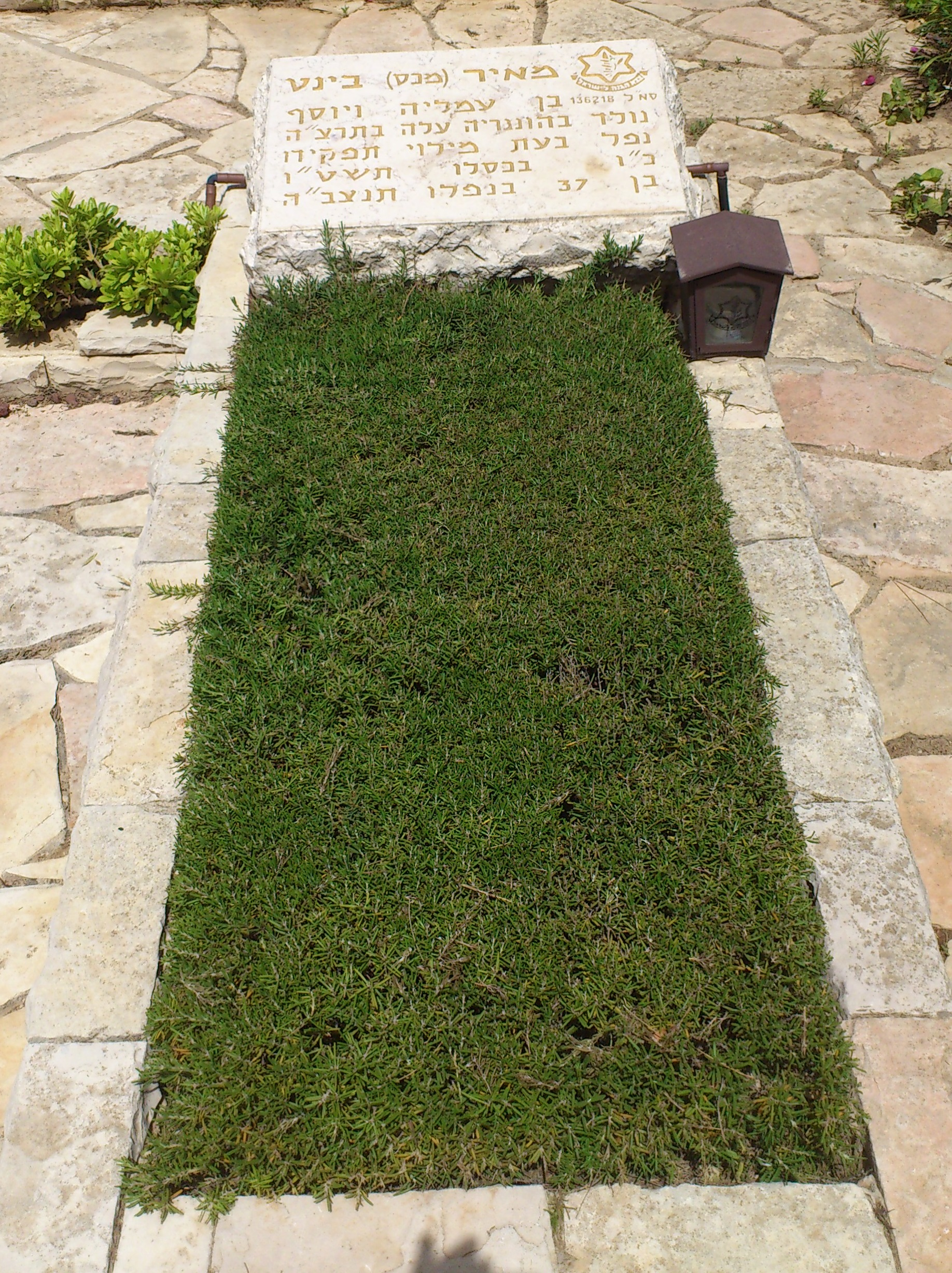 Meir Max Bineth